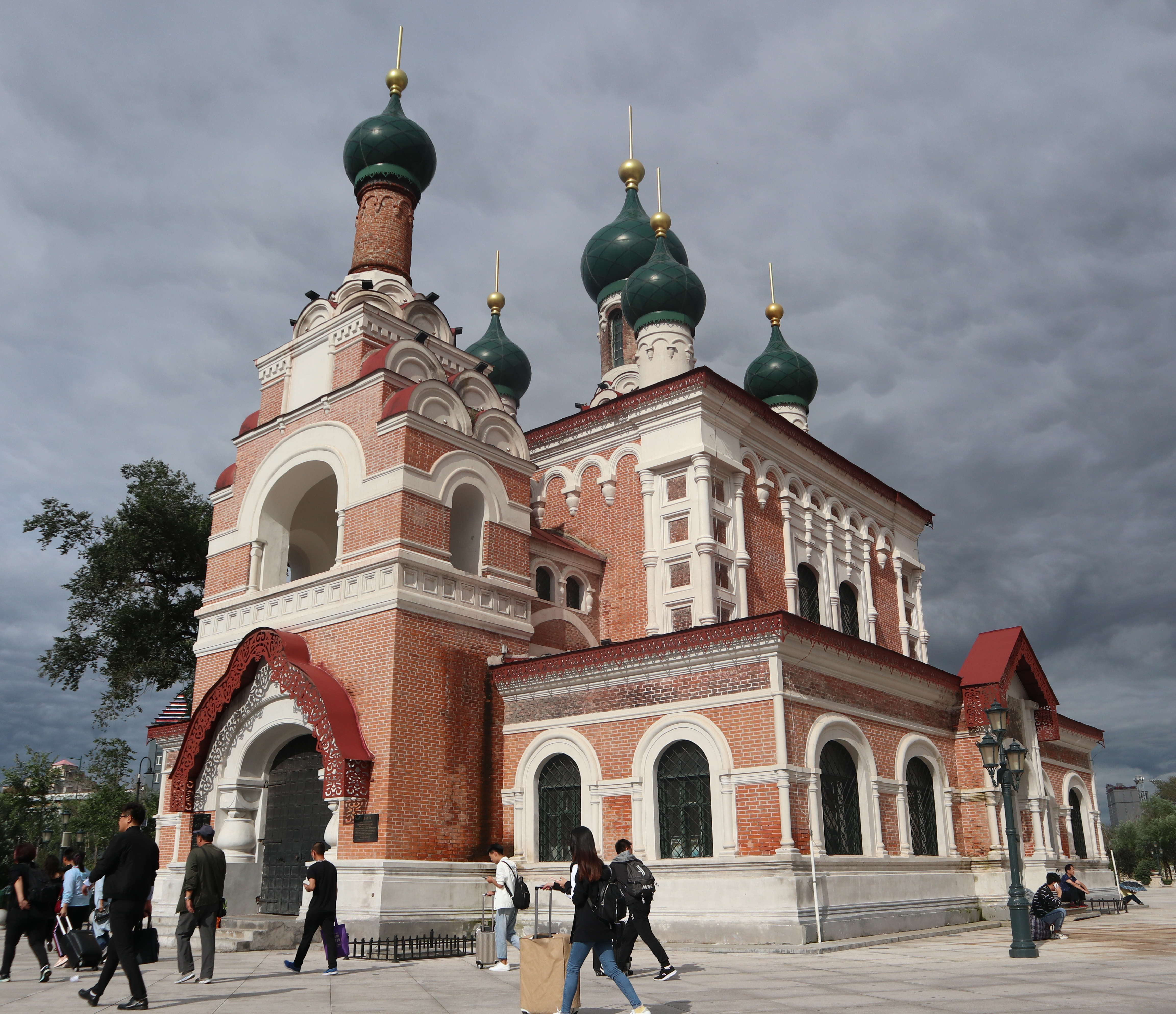 Church of the Theotokos of Iveron in Harbin after renovation.